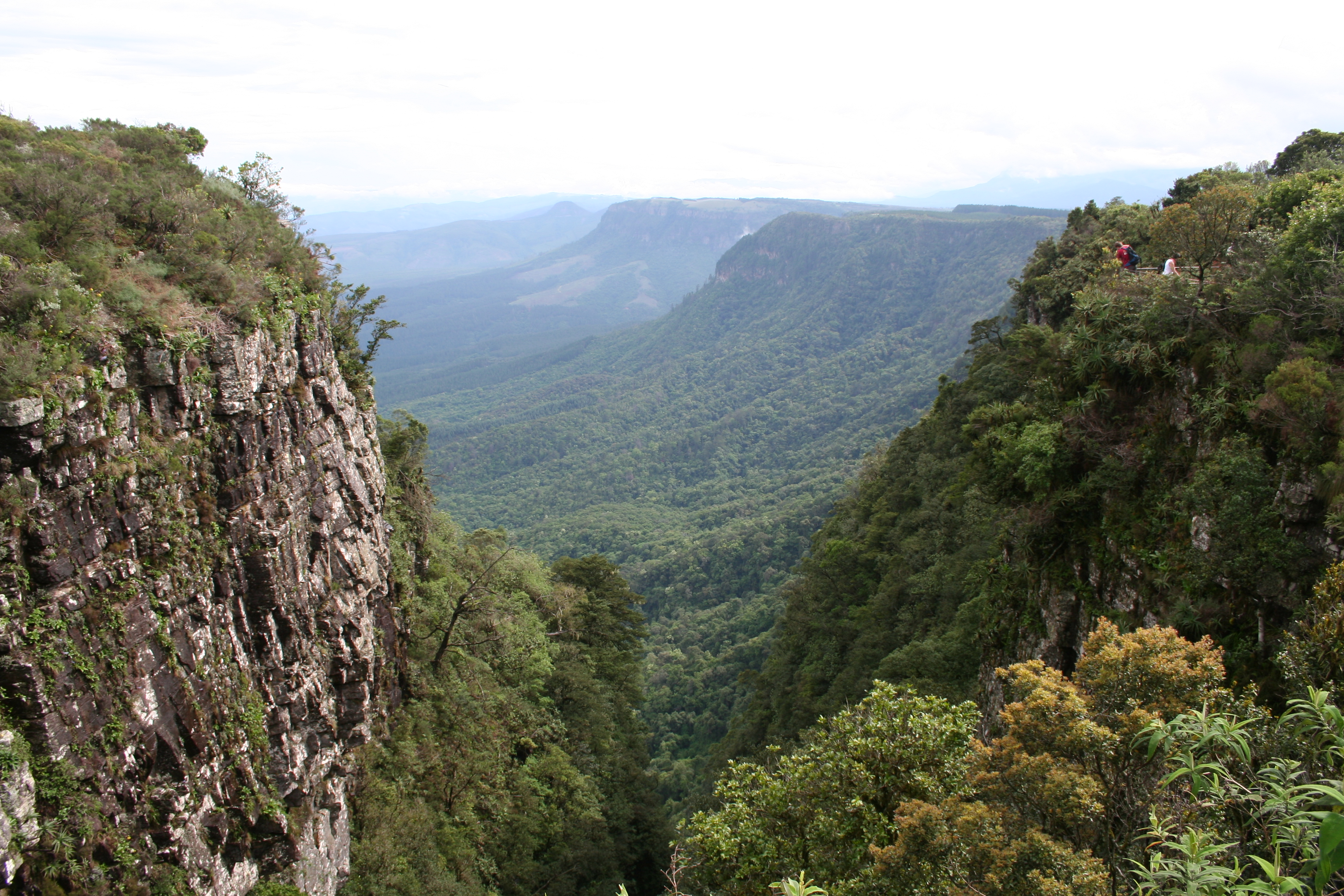 "God's Window", near Graskop, Mpumalanga, South Africa